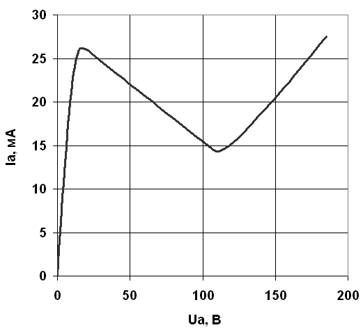 Plate (anode) current vs plate voltage in an early Mullard 020 tetrode vacuum tube (1921 or earlier) showing region of negative resistance (negative slope) used in dynatron oscillators. The horizontal axis is the ratio of plate (anode) voltage to screen grid voltage. It can be seen that dynatron action only occurs when the screen grid has a significantly higher potential than the plate. Modern tetrodes have their plate treated to inhibit secondary emission and so do not show this negative resistance region.